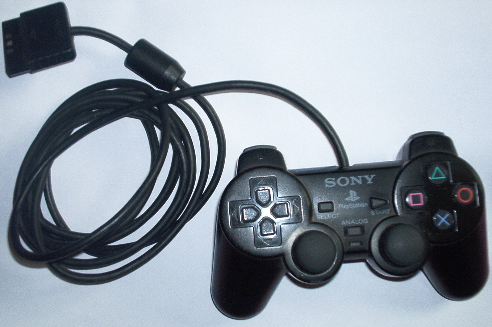 A game controller for PlayStation 2.